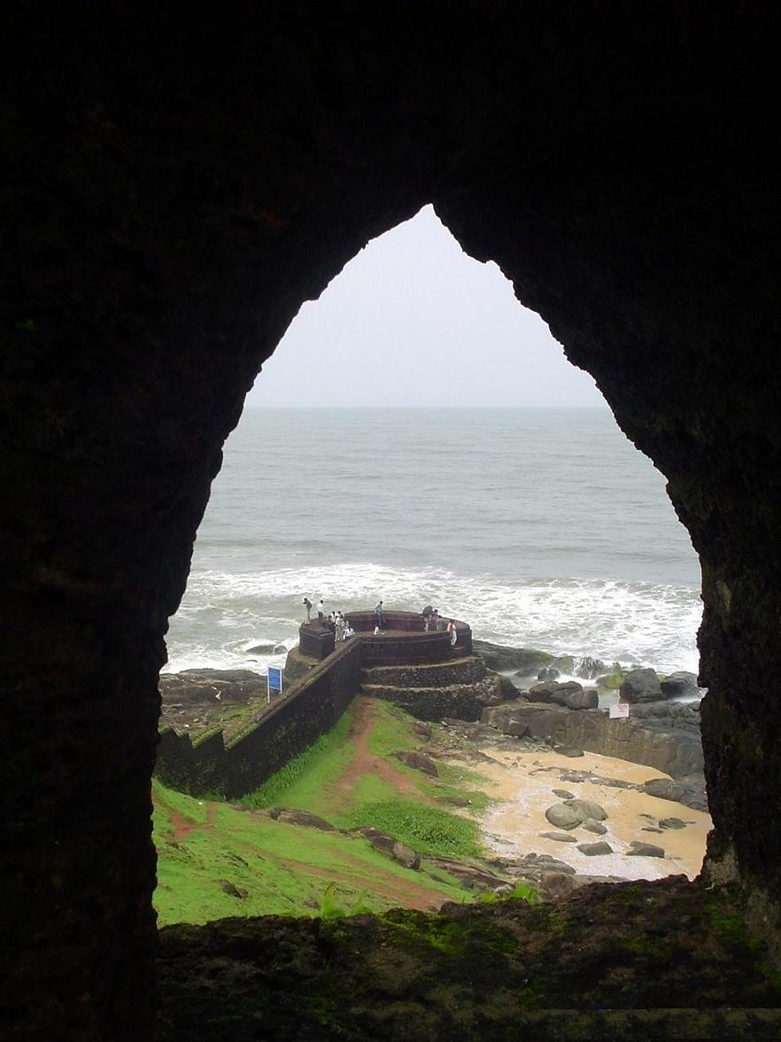 photographed by Pratheepps